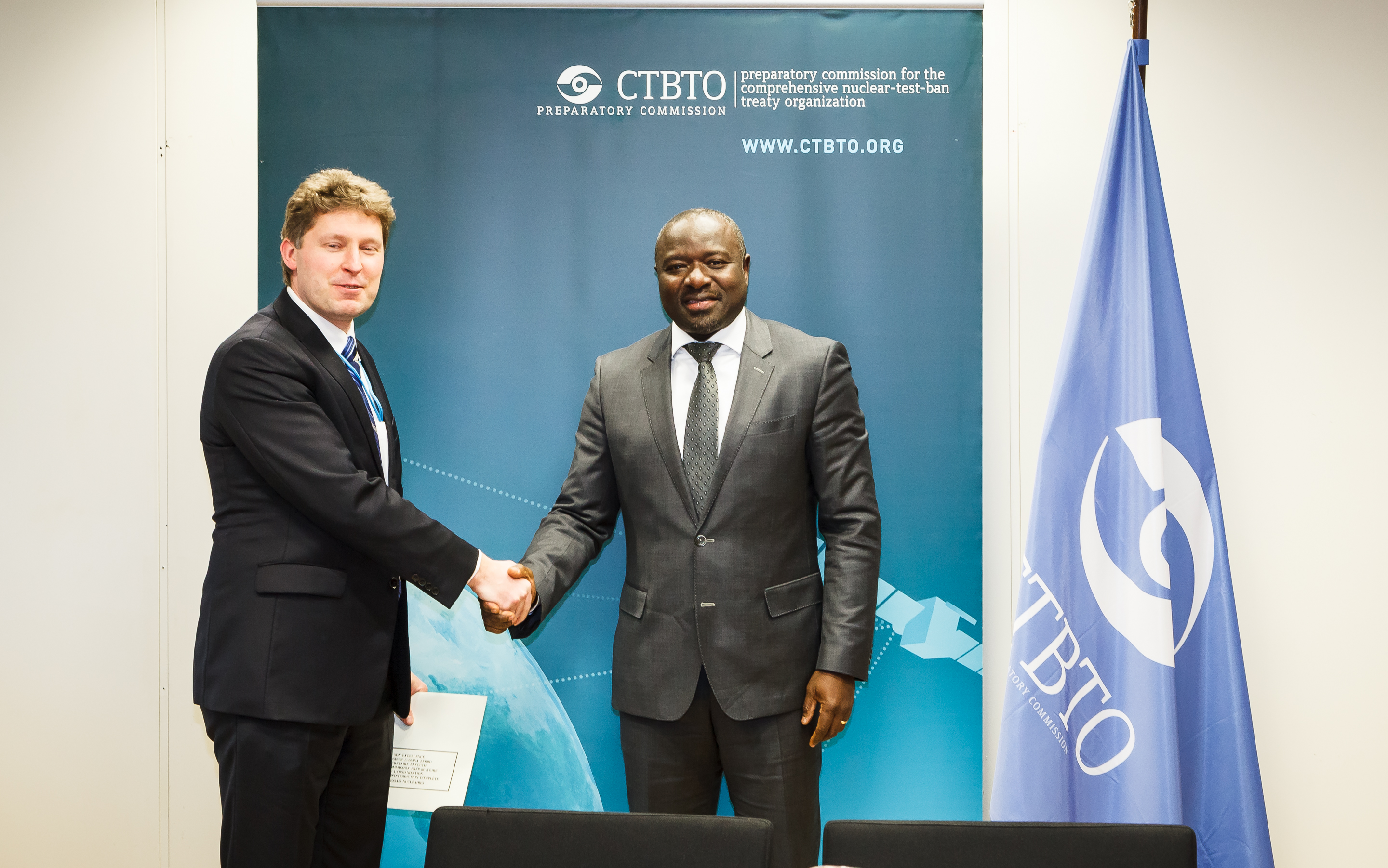 HE Mr Adam Zbigniew BUGAJSKI, the Permanent Representative of the Republic of Poland presents his credentials to the Executive Secretary of the Preparatory Commission for the Comprehensive Nuclear-Test-Ban Treaty Organization, on Tuesday, 27 January 2015.